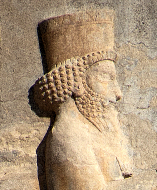 Artaxerxes II relief portrait detail